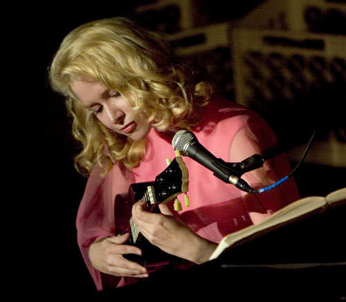 Photo of Nellie McKay